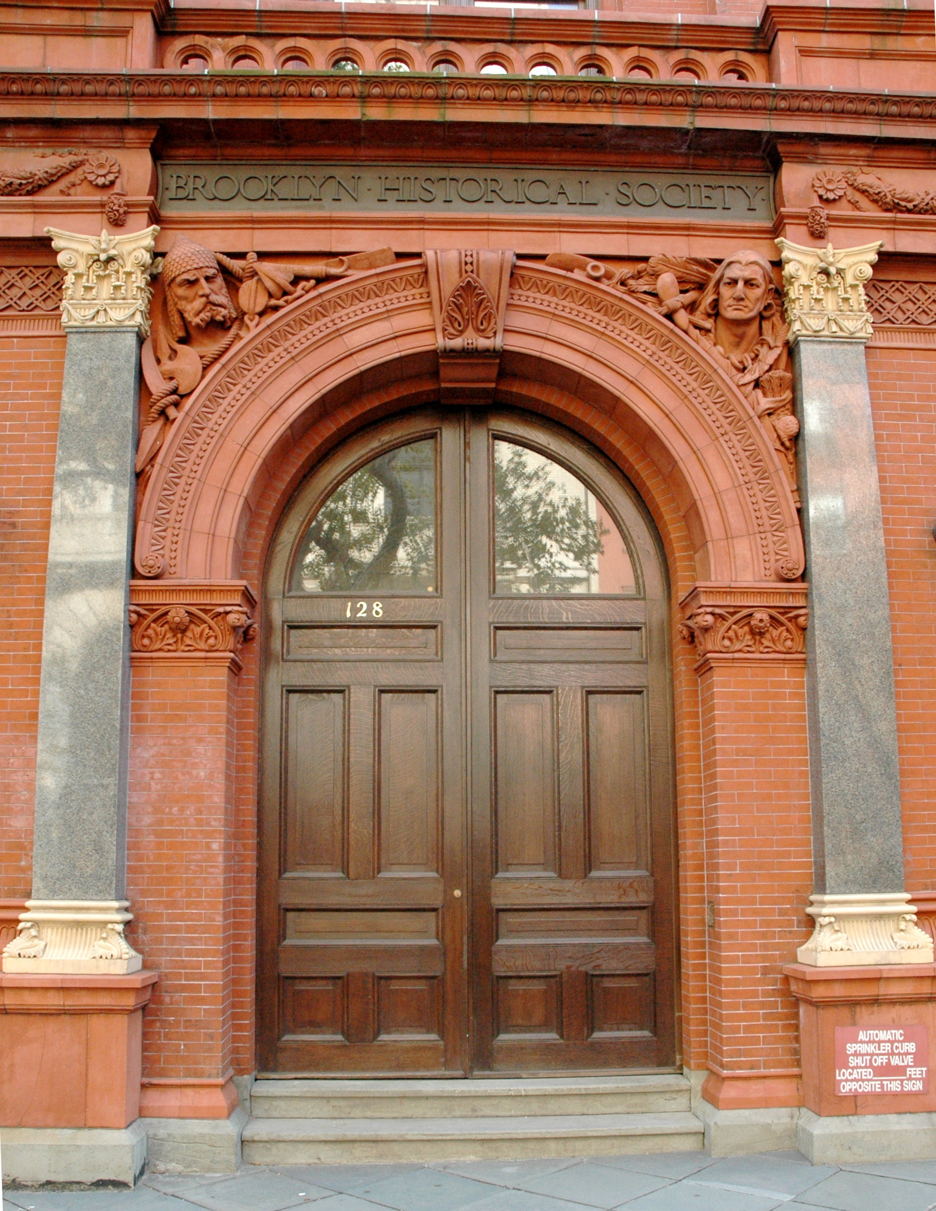 This photo is of Wikis Take Manhattan goal code J10, Brooklyn Historical Society.